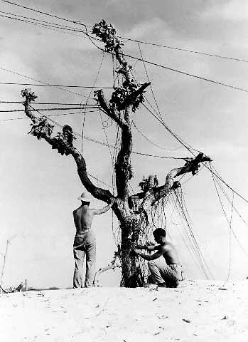 Communications men string telephone wire on a tree on Enewetak Atoll, Marshall Islands, circa 1944.[1]